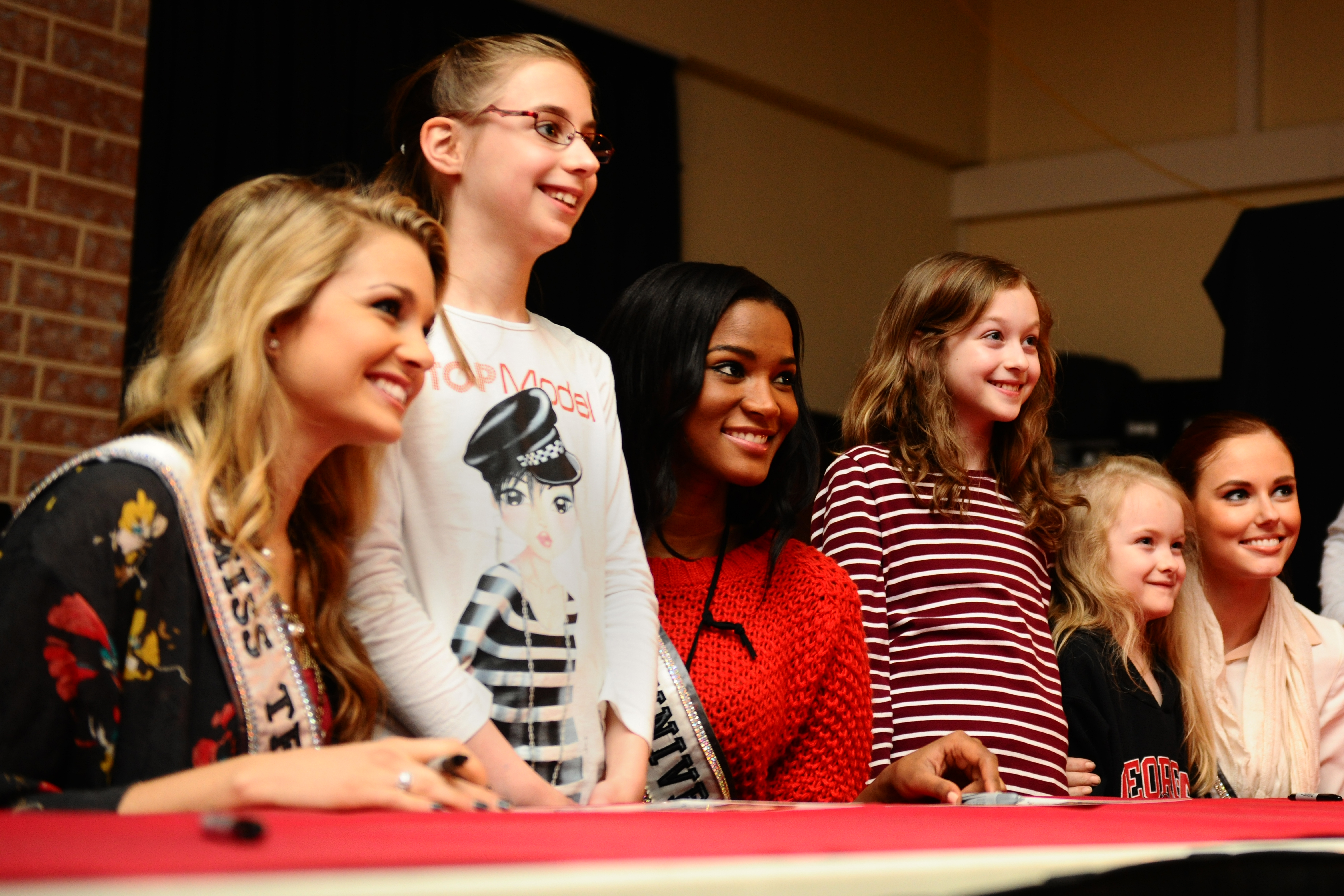 Danielle Doty, Miss Teen USA 2011; Maren Thiel; Leila Lopez, Miss Universe 2011; Hannah Rice; Megan Rice; and Alyssa Campanella, Miss USA 2011, pose for a picture at the Brick House during their USO and Armed Forces Entertainment tour at Spangdahlem Air Base, March 13 2012.